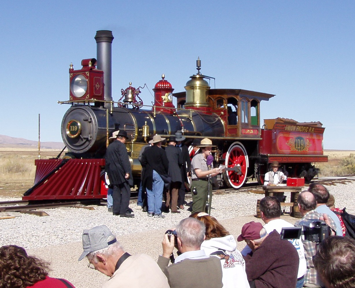 Recreations of the completion of the first transcontinental railroad ceremony are performed on a seasonal schedule at the Golden Spike National Historic Site. Photo by Evan Jennings, Oct, 2004.